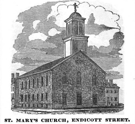 Sketch of St. Mary's Catholic Church on Endicott Street in the North End of Boston, Massachusetts